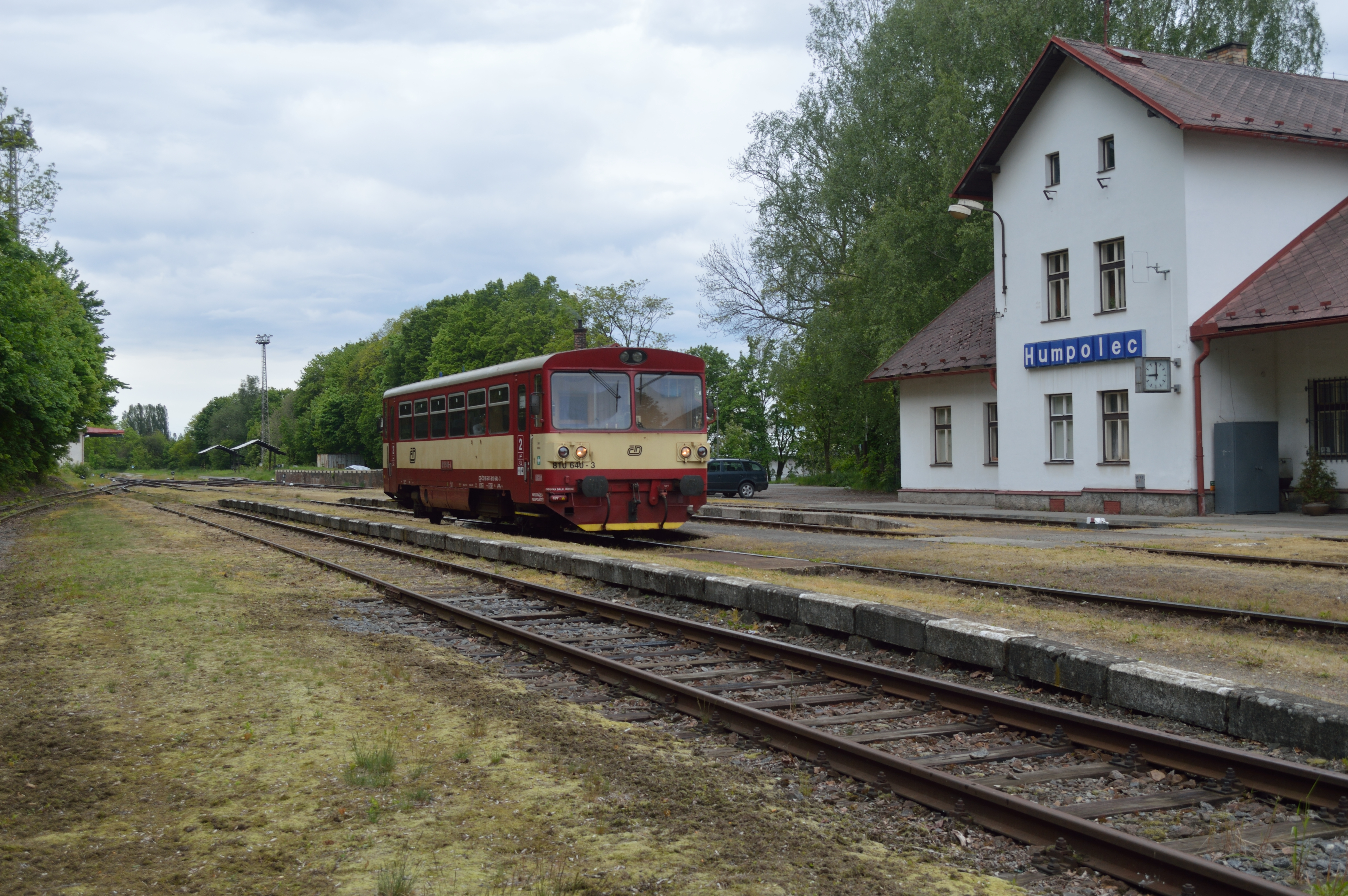 First branch covered on 16 May 2014 was Humpolec. Travel arrangements from Jihlava where I had spent the previous night were by express bus. Seen before departure, 810.640 was in charge of train Os15957, 09:11 Humpolec to Havlíčkův Brod.